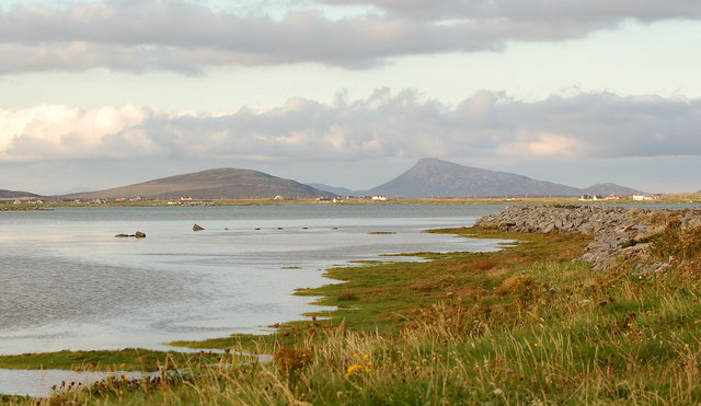 South Ford, Eochar. Looking NE towards Rueval on Benbecula and Eaval on North Uist, from the spot which suffered tragic loss of life in the 2004 hurricane.